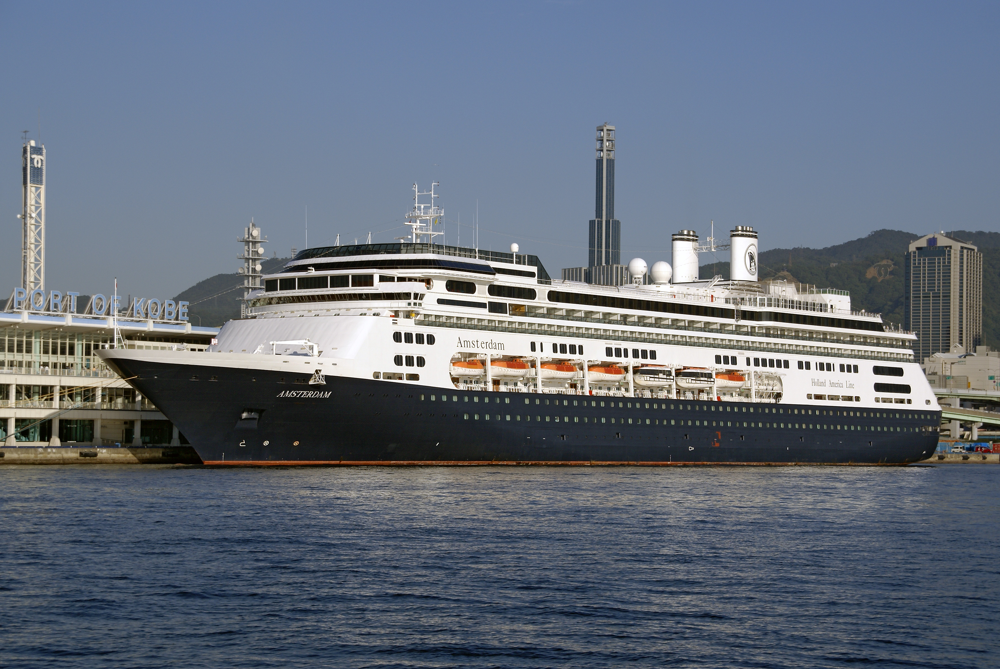 "Amsterdam" at "Kobe Port Terminal" of the Kobe harbor ( Kobe, Hyogo prefecture, Japan)